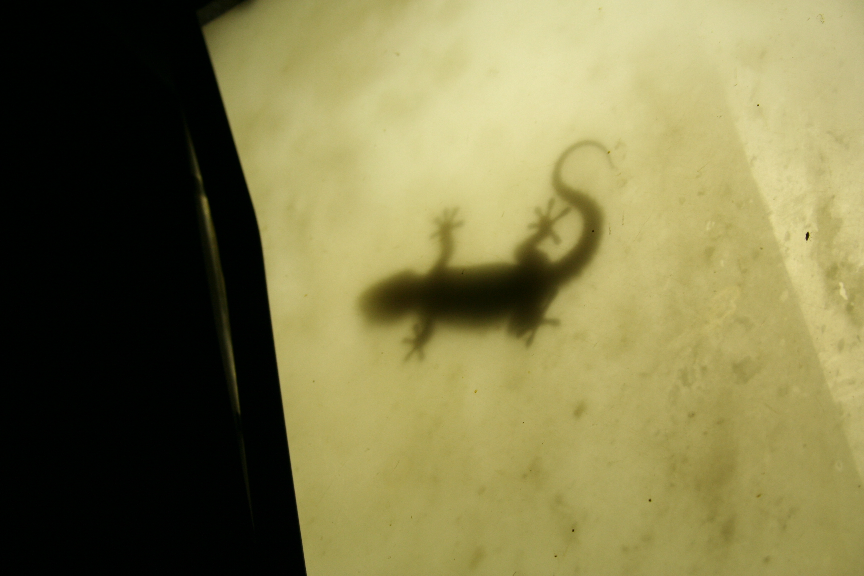 Gecko (more precisely Hemidactylus frenatus), also known as margouillat in France (where the picture was taken), hidden inside a street lamp.